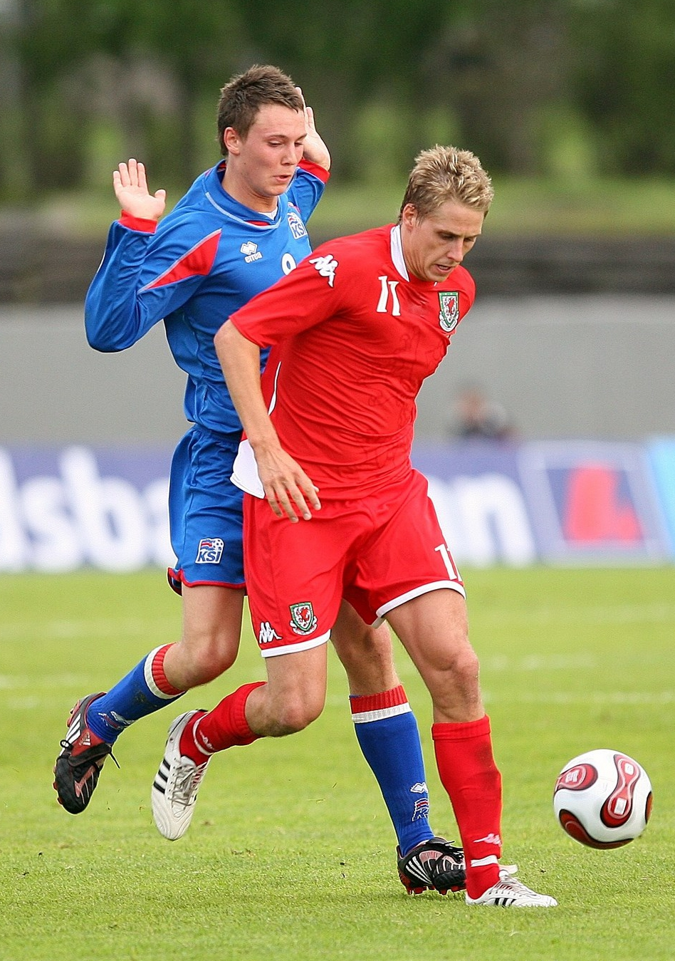 Football players Eggert Jónsson of Iceland (blue) and David Edwards of Wales (red) during match against their national teams.